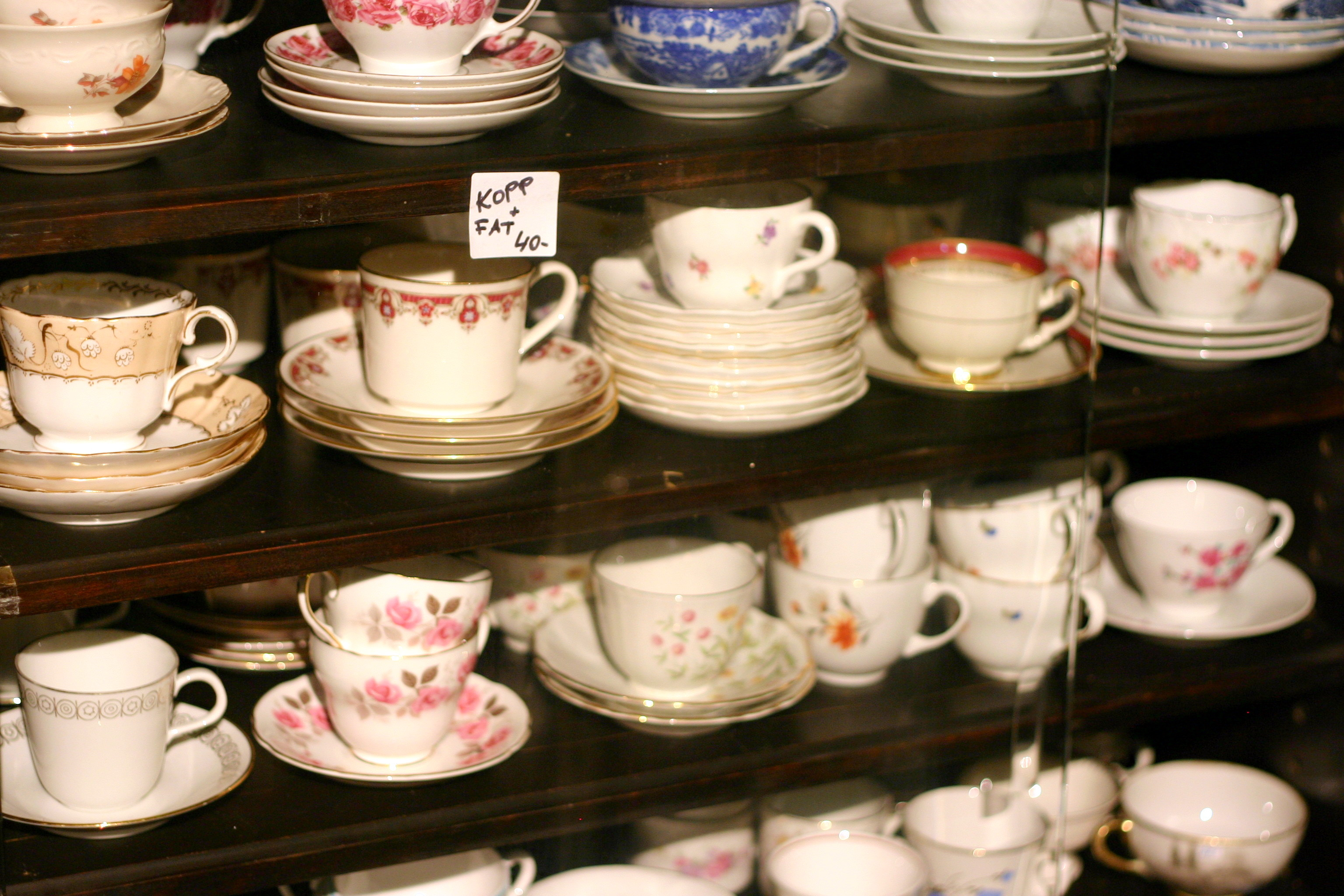 Varieties of coffee cups for sale in a thrift store in Vadstena, Sweden